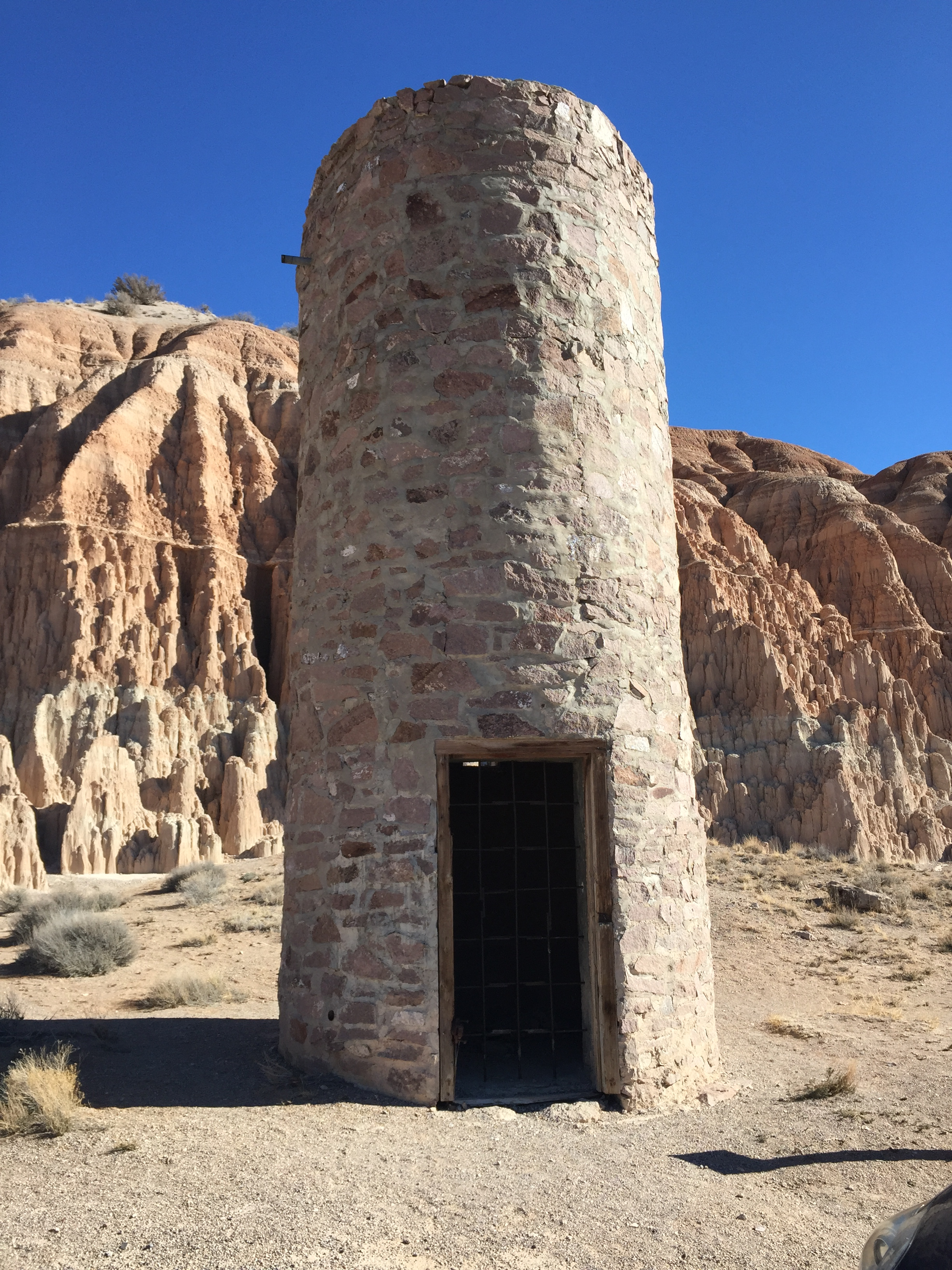 Old water tower in Cathedral Gorge State Park, Nevada